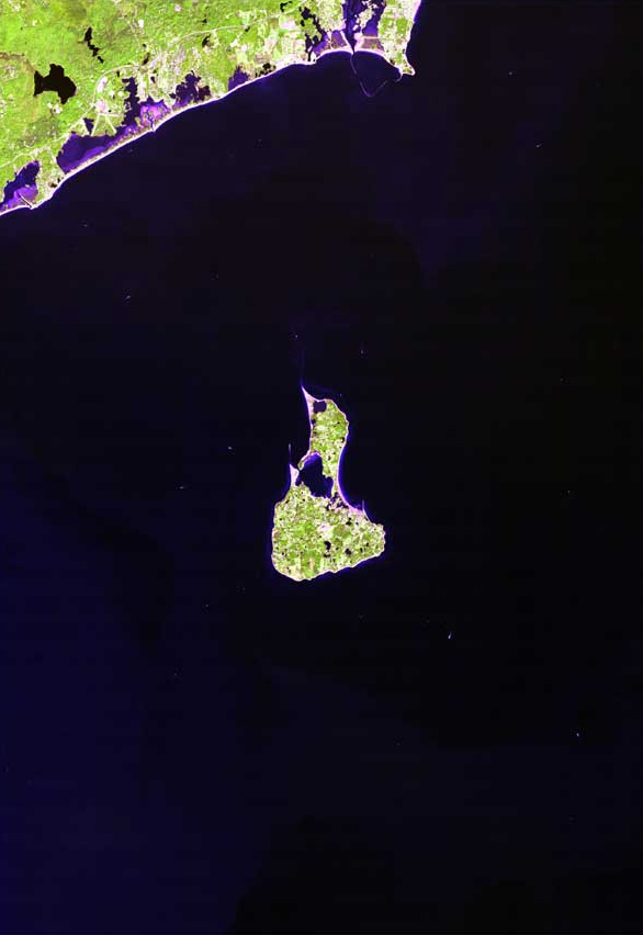 Satellite picture of Block Island with town of New Shoreham, and the Atlantic coastline of Rhode Island, northeastern U.S. Credits The raw satellite imagery shown in these images was obtain from NASA and/or the US Geological Survey. Post-processing and production by